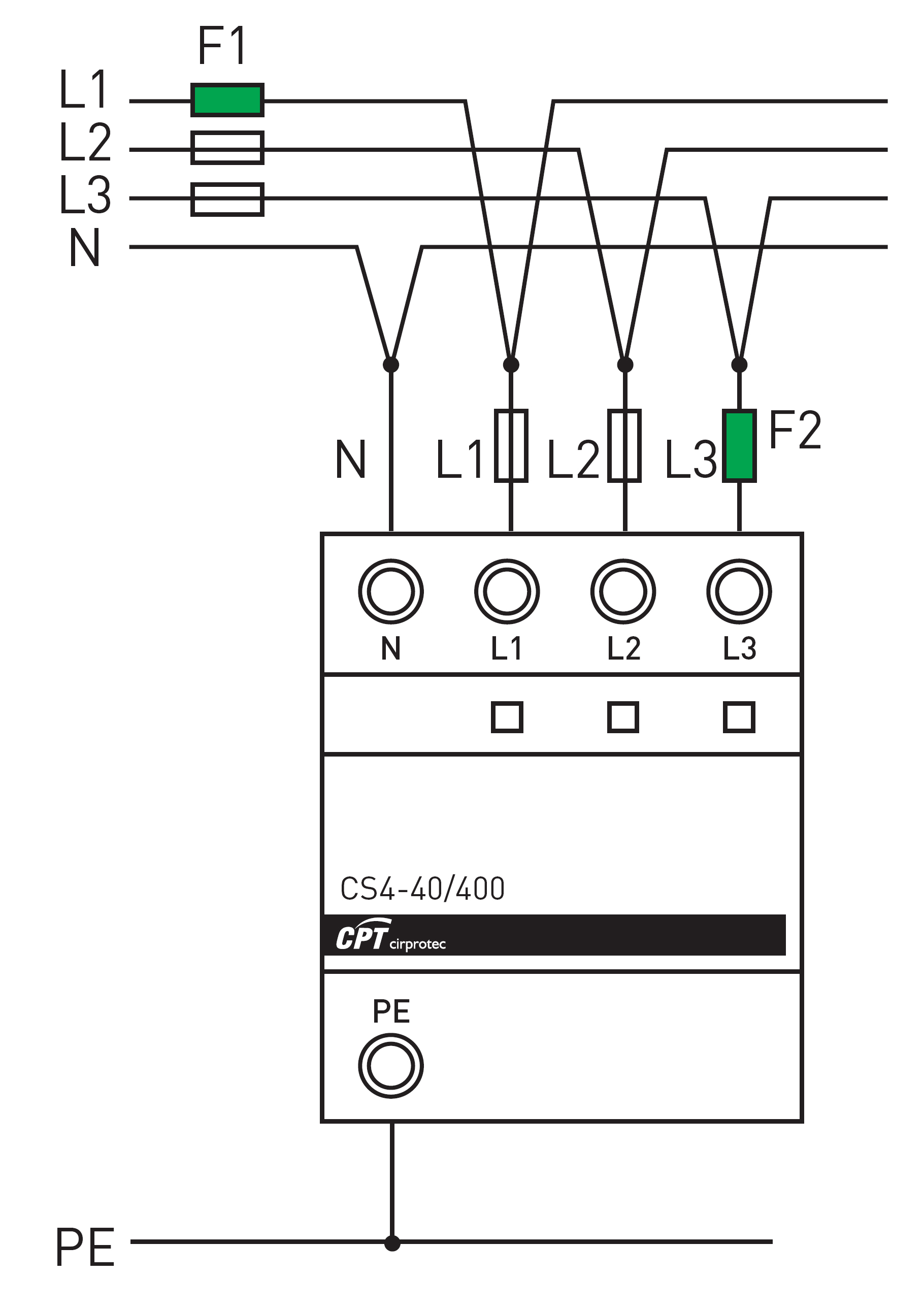 Esquema fusible